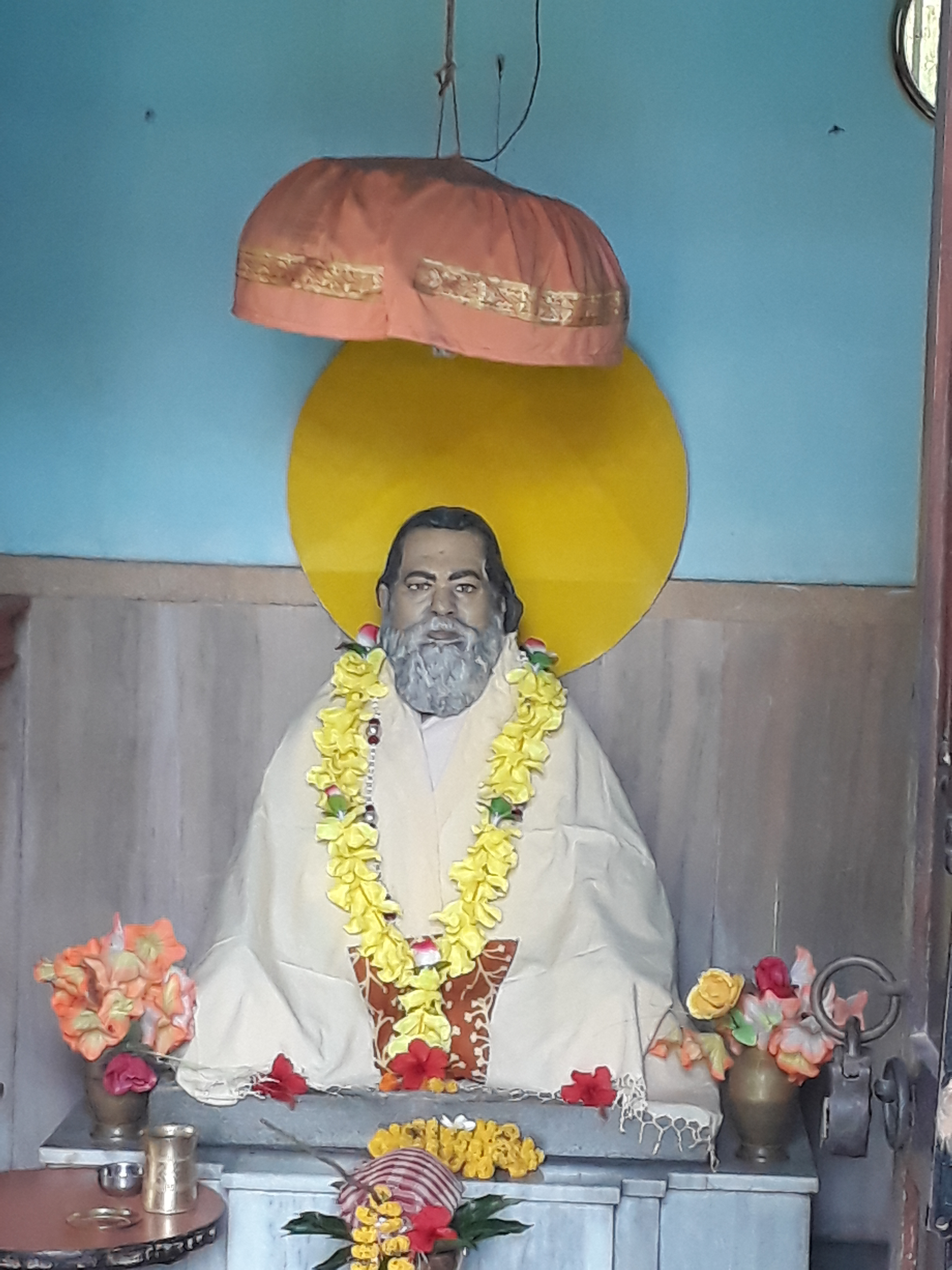 Prabartak Sangha, a nationalist organisation and House of Matilal Roy in Chandannagar, Hooghly district.